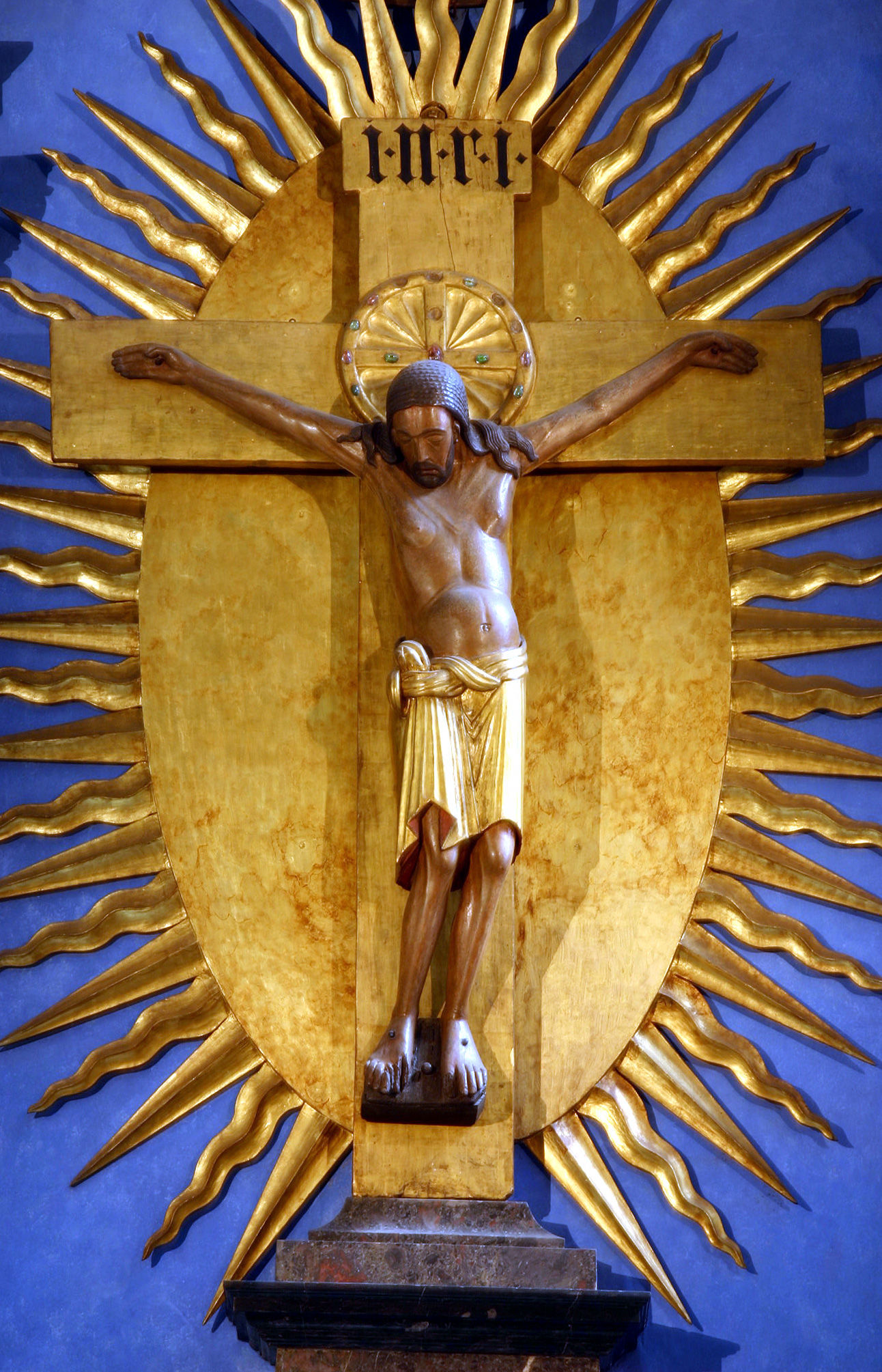 „Gero crucifix“, late 10. century, Cologne Cathedral, Germany author: Elke Wetzig (elya) date: 2006-09-03